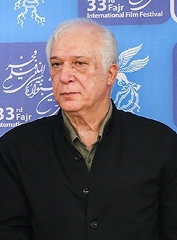 Khosro Sinaei